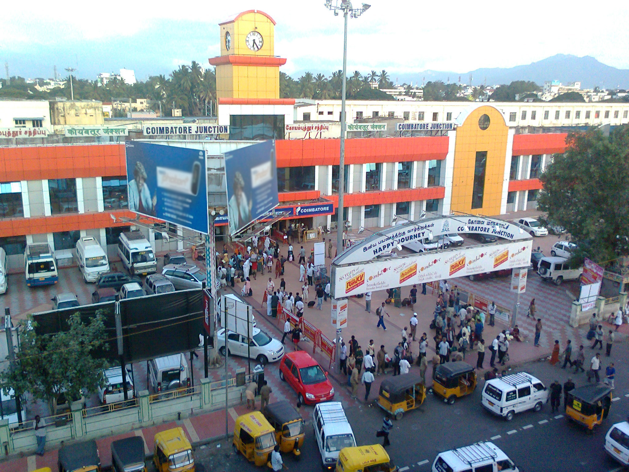 coimbatore railway junction front view, coimbatore, taminadu